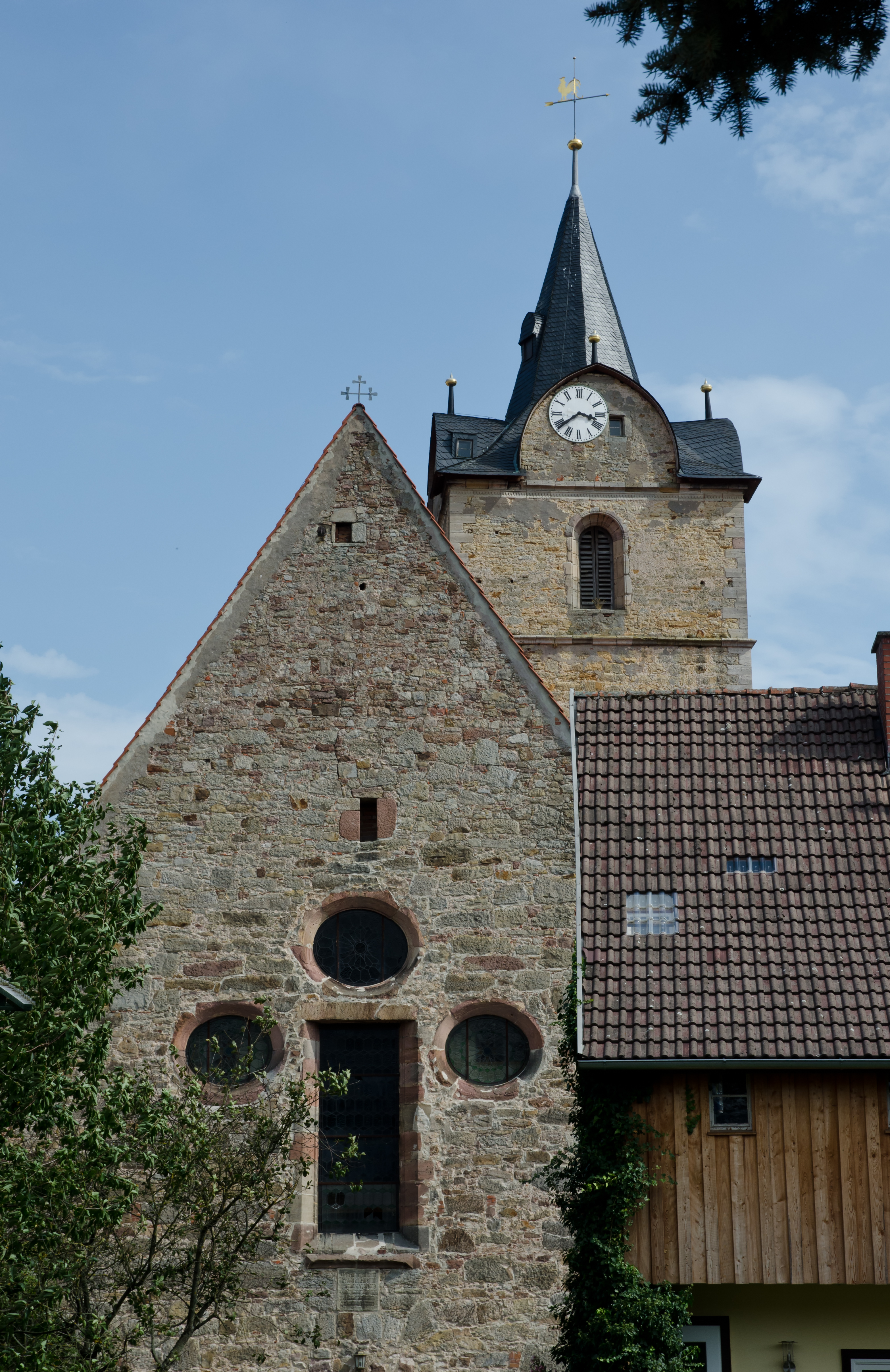 Inside the parish church St. Bartholomäus, Themar, Thuringia